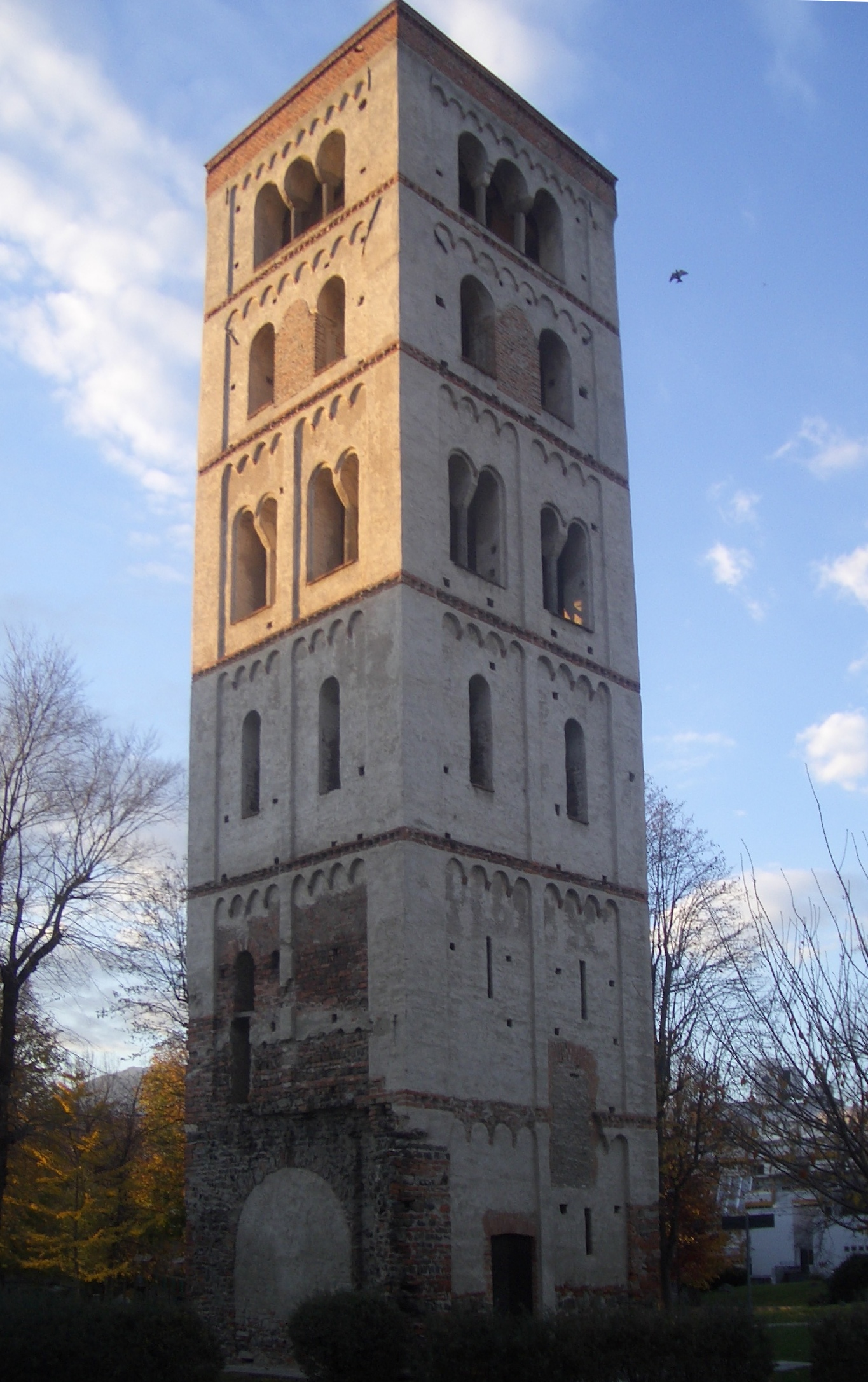 Santo Stefano Tower, Ivrea, Turin, Italy